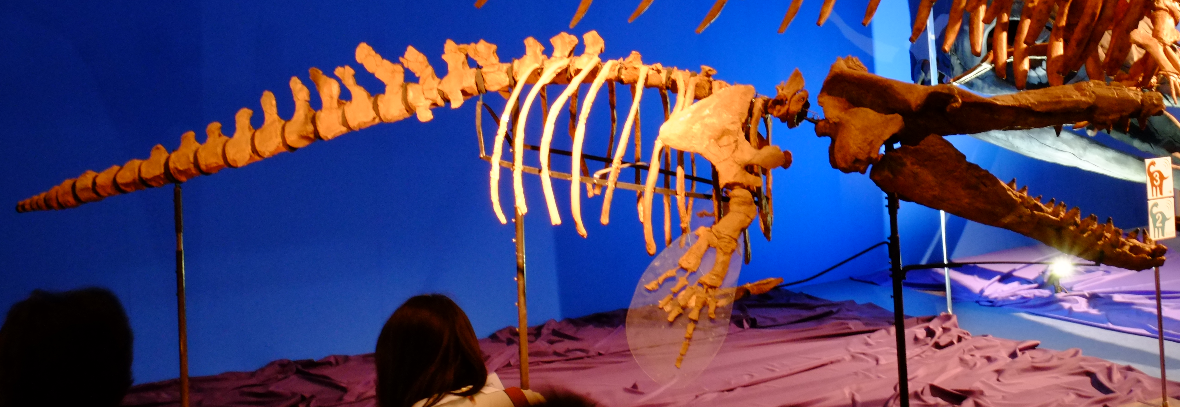 カミツキマッコウは1983年に長野県松本市で発見されたマッコウクジラの仲間。ぎざぎざの歯が噛みついていた印。 こうして見るとバシロサウルスの長さが凄い。